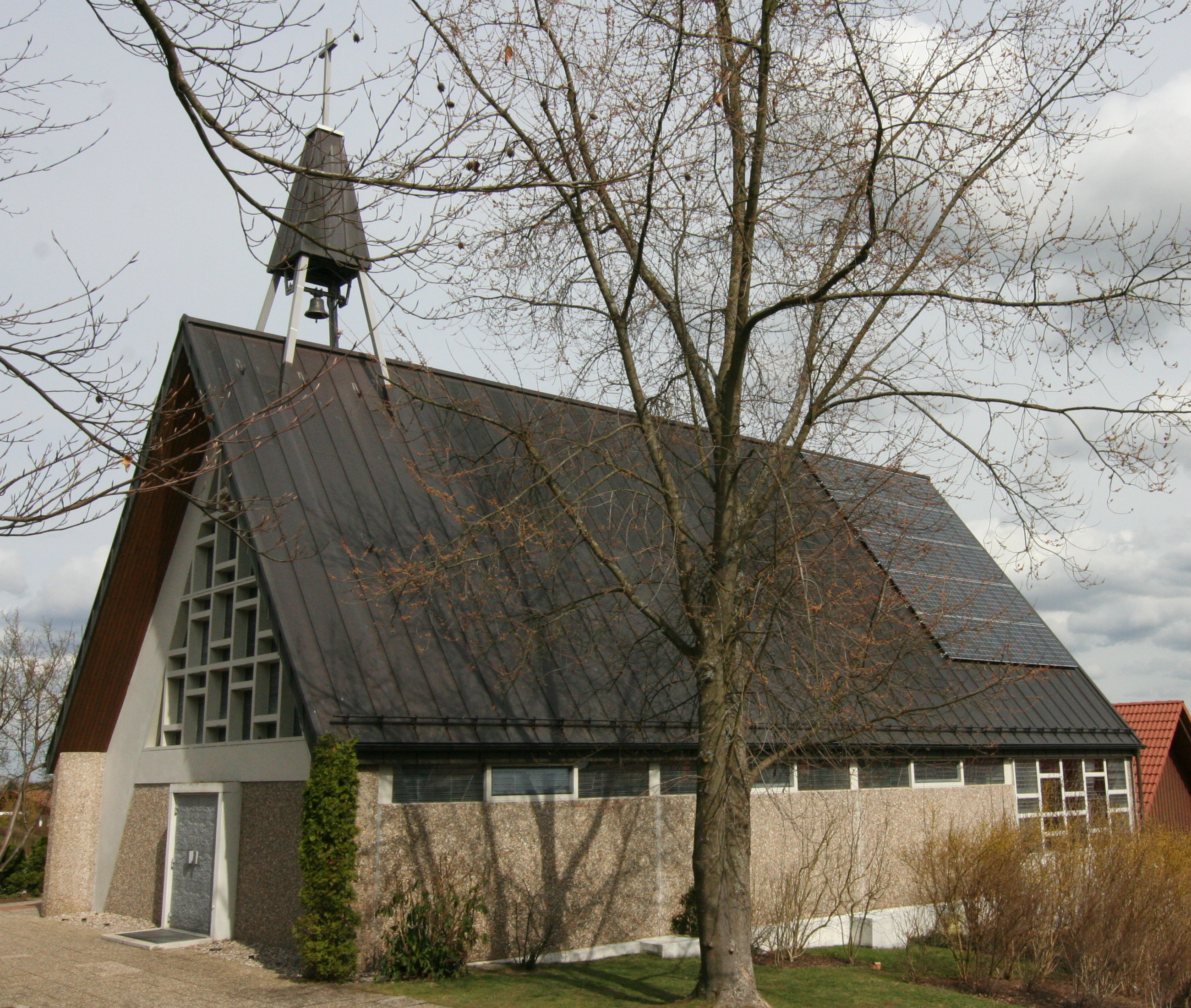 Roman Catholic church St. Barbara in Wüstenrot-Neuhütten